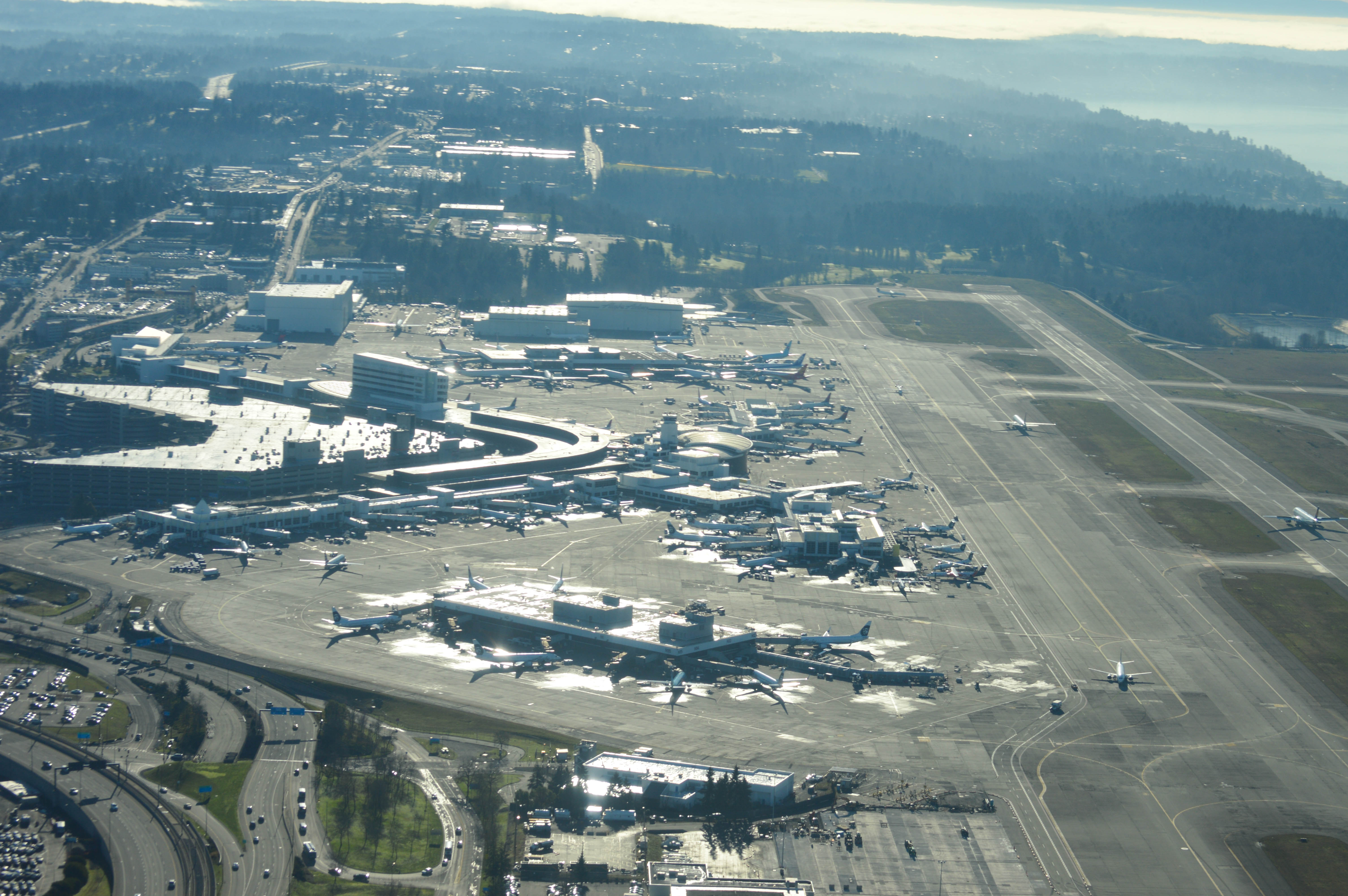 SeaTac airport terminals from above.